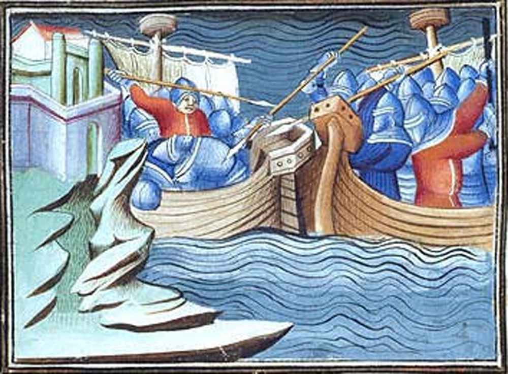 Battle of La Rochelle